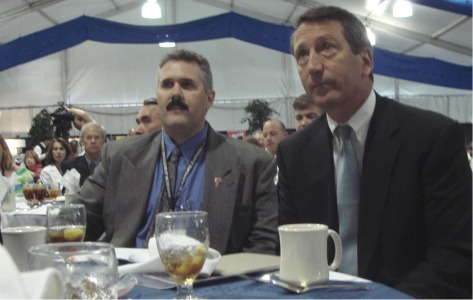 Mark Cerney (left) and South Carolina Governor Mark Sanford (right) Taken at 2007 Emergency Preparedness Conference in Myrtle Beach, South Carolina.